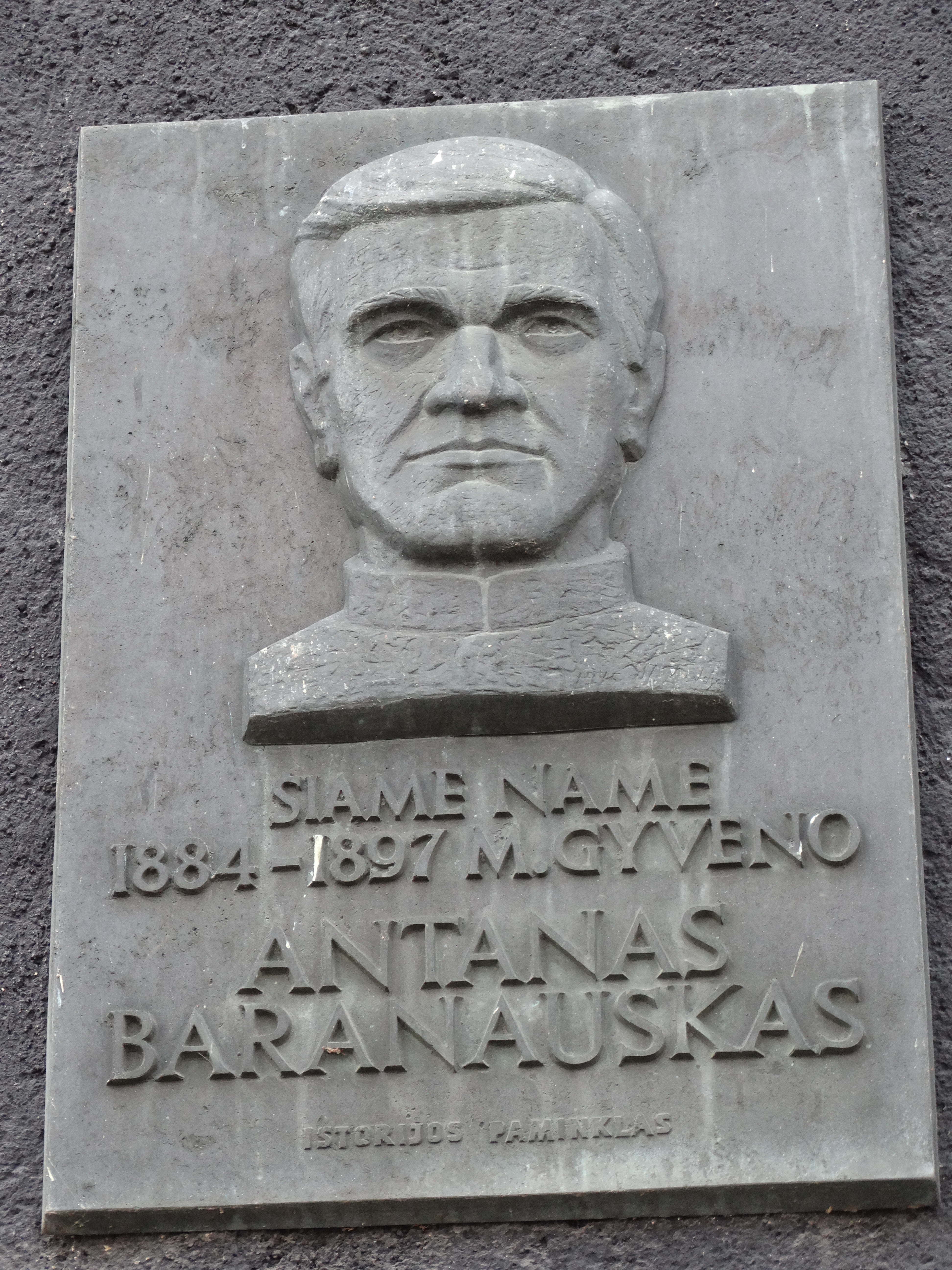 Memorial plaque to Antanas Baranauskas, Rotušės a., Kaunas, Lithuania